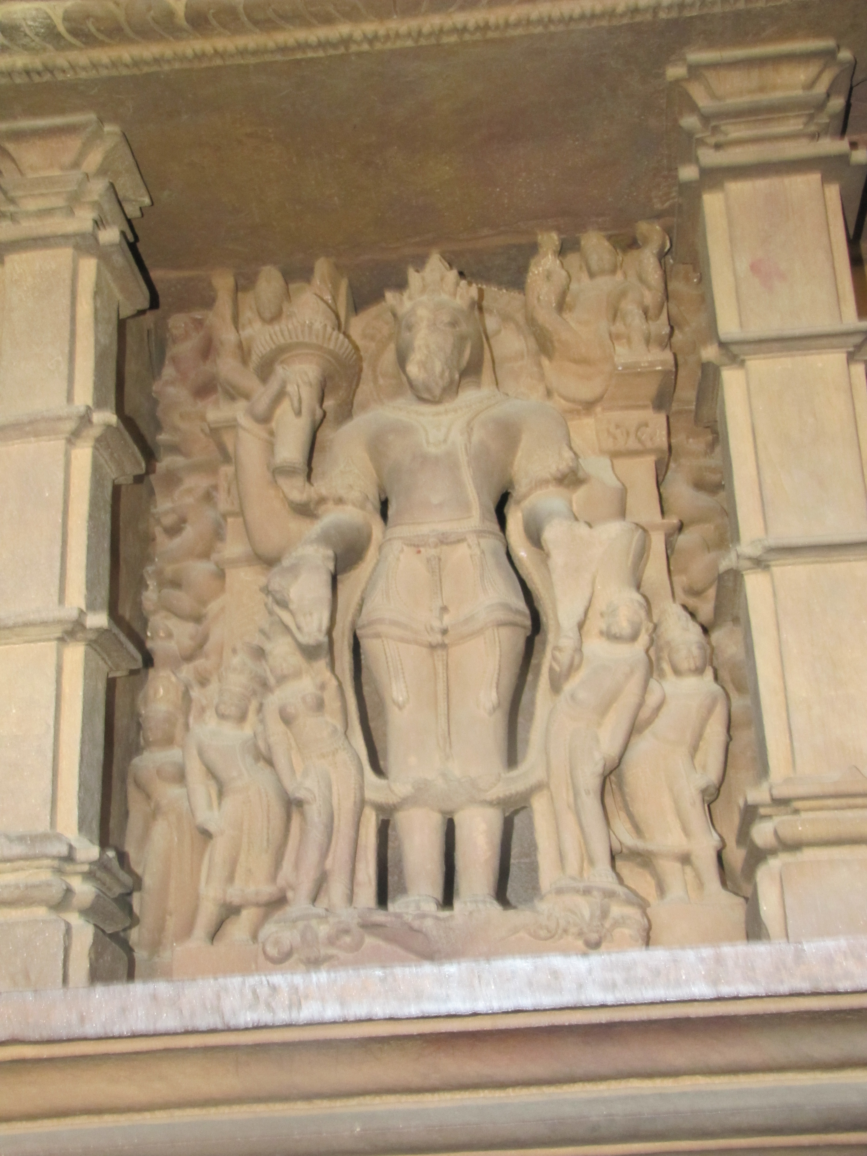 Khajuraho India, Lakshman Temple, Sculpture 12 - Hayagriva.The sculpture is located at inner walls of the sanctum area of Lakshamana Temple. Lakshamana temple is among Khajuraho Group of Monuments(a World Heritage Site)